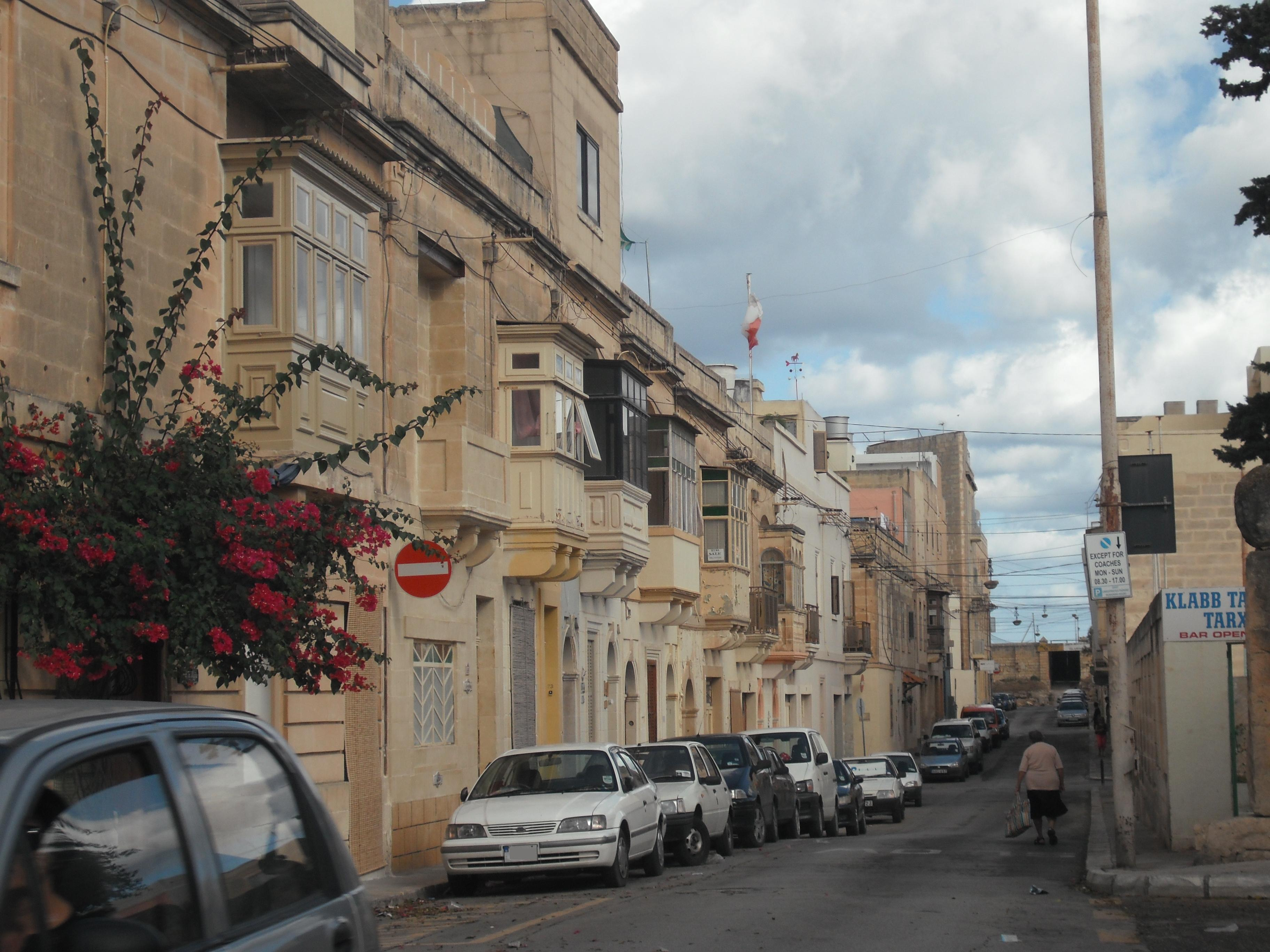 The City of Tarxien on the Island of Malta. This was shot near the famous Tarxien Temple.